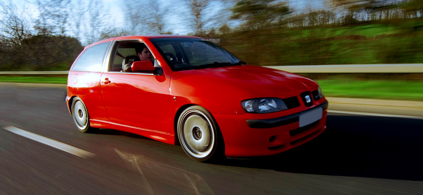 my cupra